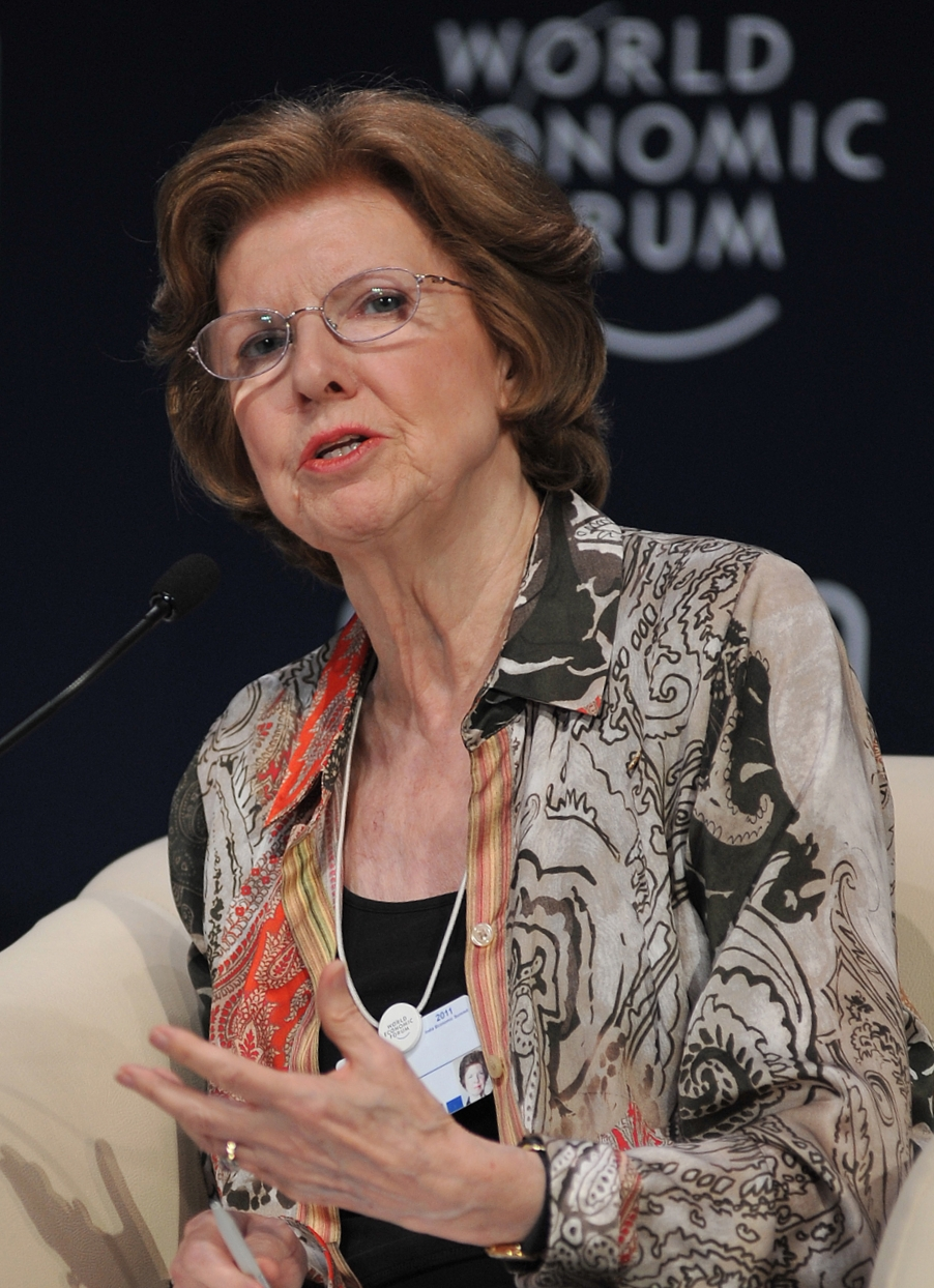 MUMBAI/INDIA, 14NOV11 - Huguette Labelle, Chair, Transparency International, Germany; Co-Chairs of the India Economic Summit; Global Agenda Council on Mining & Metals at the Closing Plenary Session - From Mumbai to Davos: Shaping New Models for Livelihood during the India Economic Summit 2011 in Mumbai, India, 12-14 November, 2011. Copyright World Economic Forum ( / Eric Miller